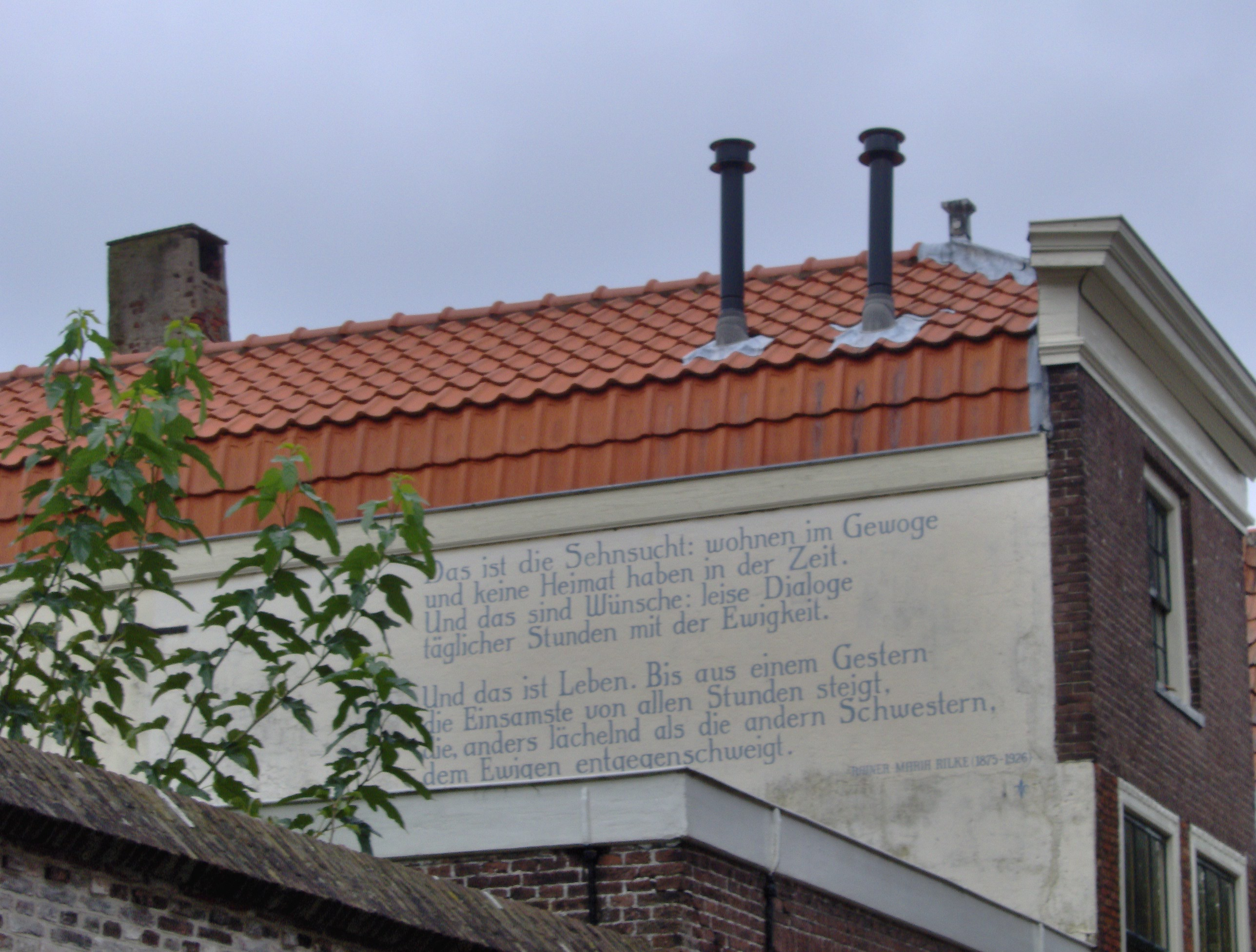 The poem Das ist die Sehnsucht: Wohnen im Gewoge (That is longing: living in turmoil) of the Austrian poet Rainer Maria Rilke on a wall of the building at the Herensteeg 39 in Leiden, The Netherlands